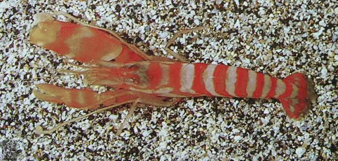 ZooKeys - Alpheus sp Cut-out from original (Colour patterns of some species of the Alpheus macrocheles (Hailstone, 1835) complex - ZooKeys-183-001-g004.jpg) shown below